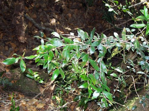 Trochocarpa montana at Gloucester Tops